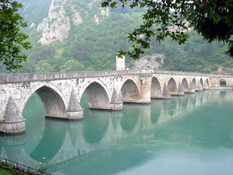 Višegrad - Old bridge over the river Drina Photo by: Aleksandar Bogicevic